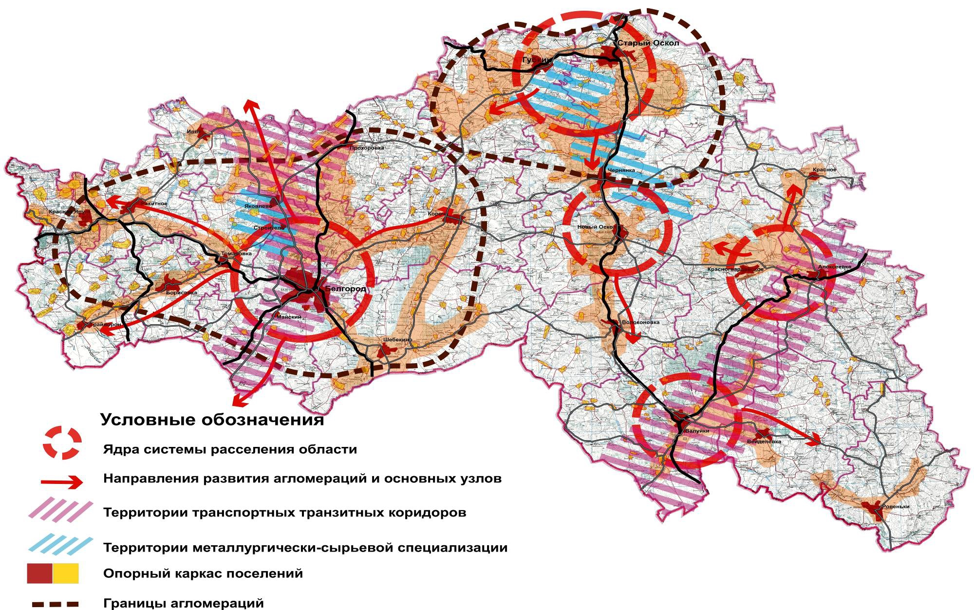 Belgorod agglomeration